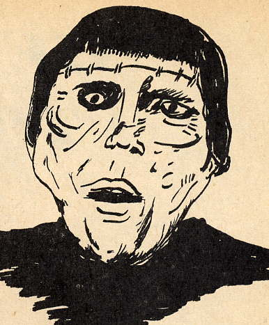 depiction of Christopher Lee as the monster in the Hammer film The Curse of Frankenstein (1957)